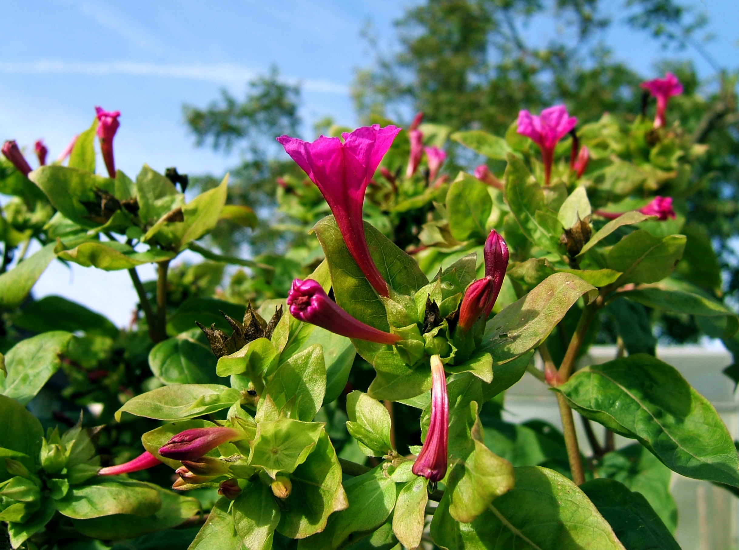 Four o'clock flower, Marvel of Peru